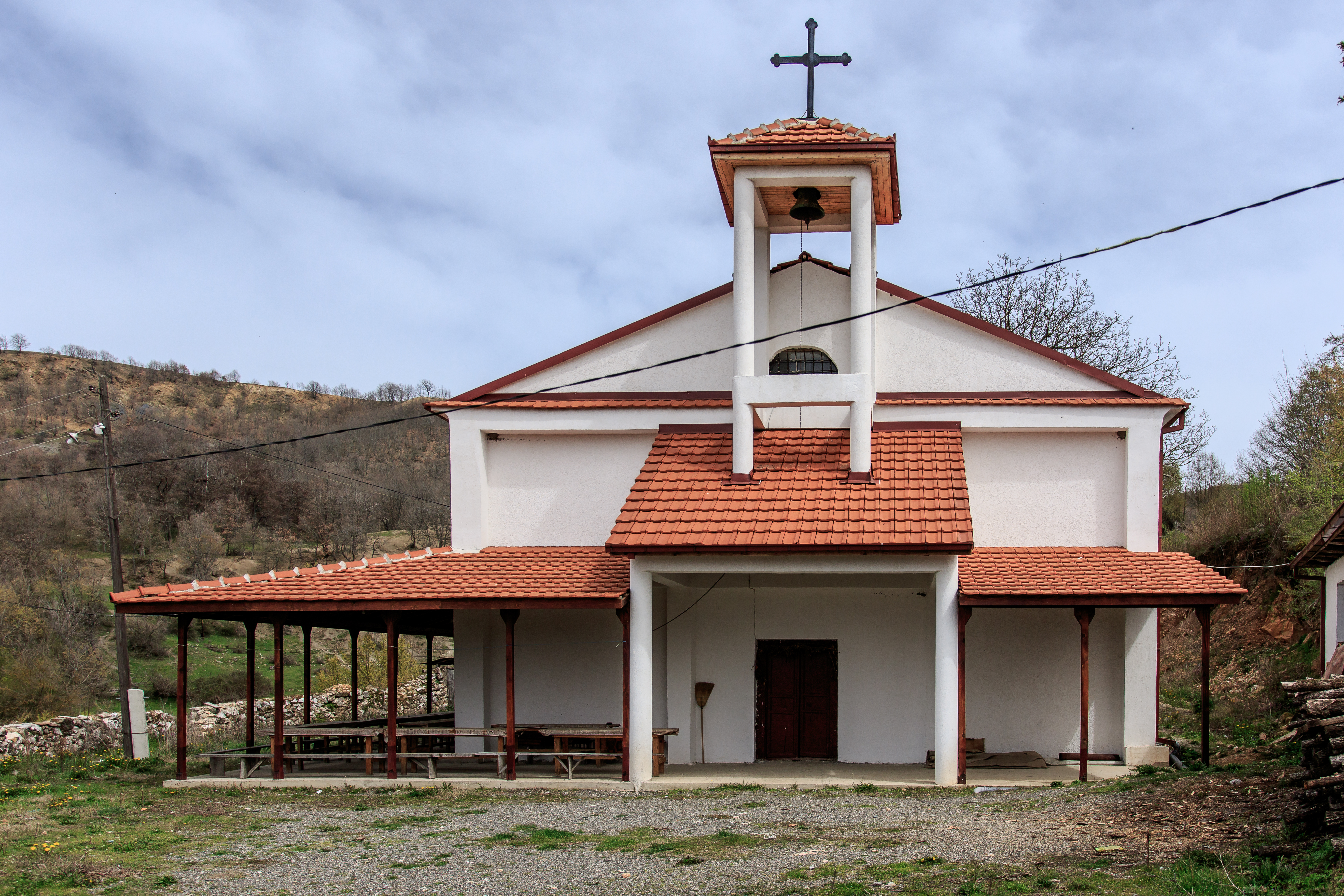 View of the St. George's Church in the village Gorni Lipoviḱ